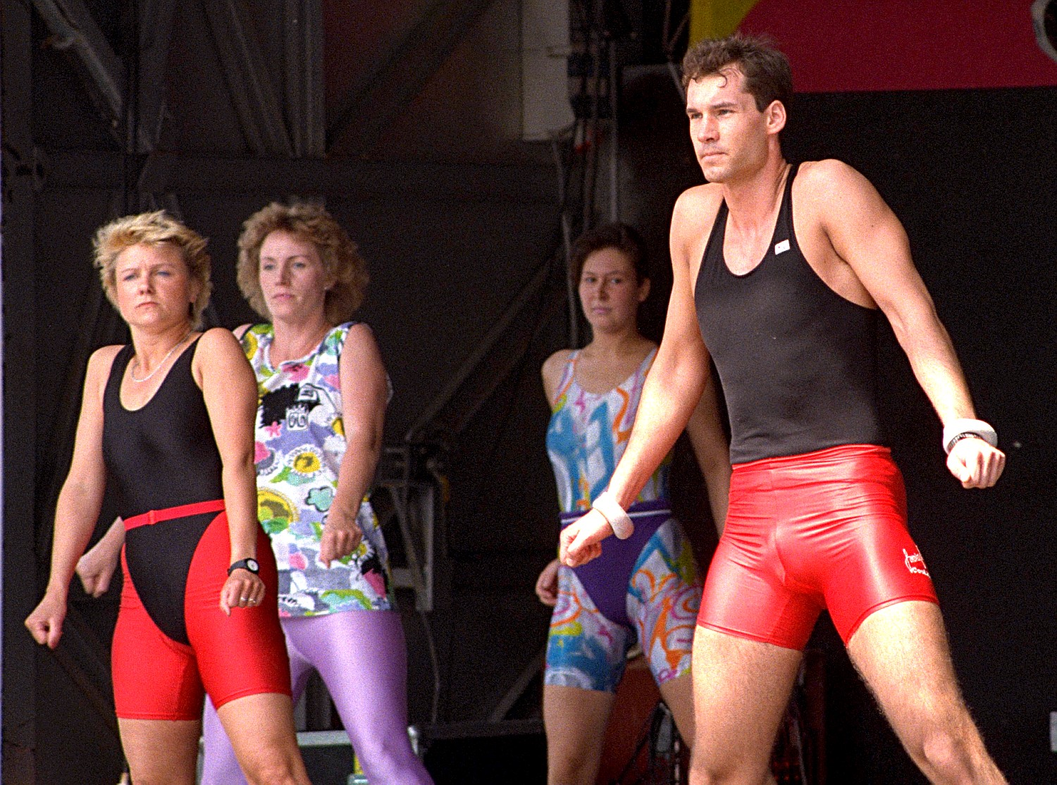 A public demonstration of aerobic exercises